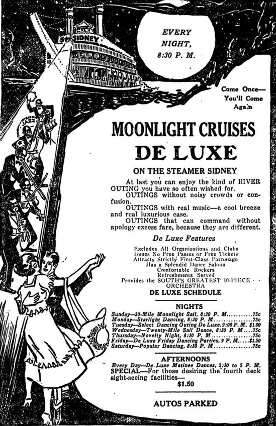 August 1920 advertisment for "Moonlight Cruises De Luxe" on the Steamer Sidney at New Orleans. Artwork shows the riverboat, an African-American band, and a white couple dancing. Ad lists times and prices, and "the South's greatest 10 piece orchestra." (This was the Fate Marable band, which included many noted black New Orleans jazz musicians of the era, including at the time young Louis Armstrong; a somewhat later version of the band recorded 2 sides for Okeh Records in 1924 as "Fate Marable's Society Syncopators". )